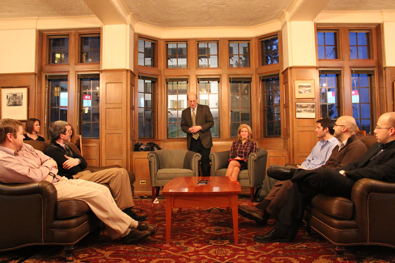 ILR Dean Harry C. Katz preparing to address the gathering of the 2011 Essay Competition Awards Ceremony of the Cornell HR Review, Doherty Lounge, Ives Hall, Cornell University